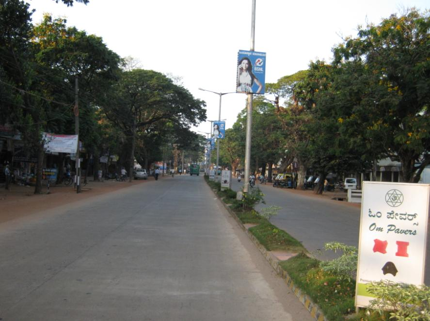 Kundapur Main Road